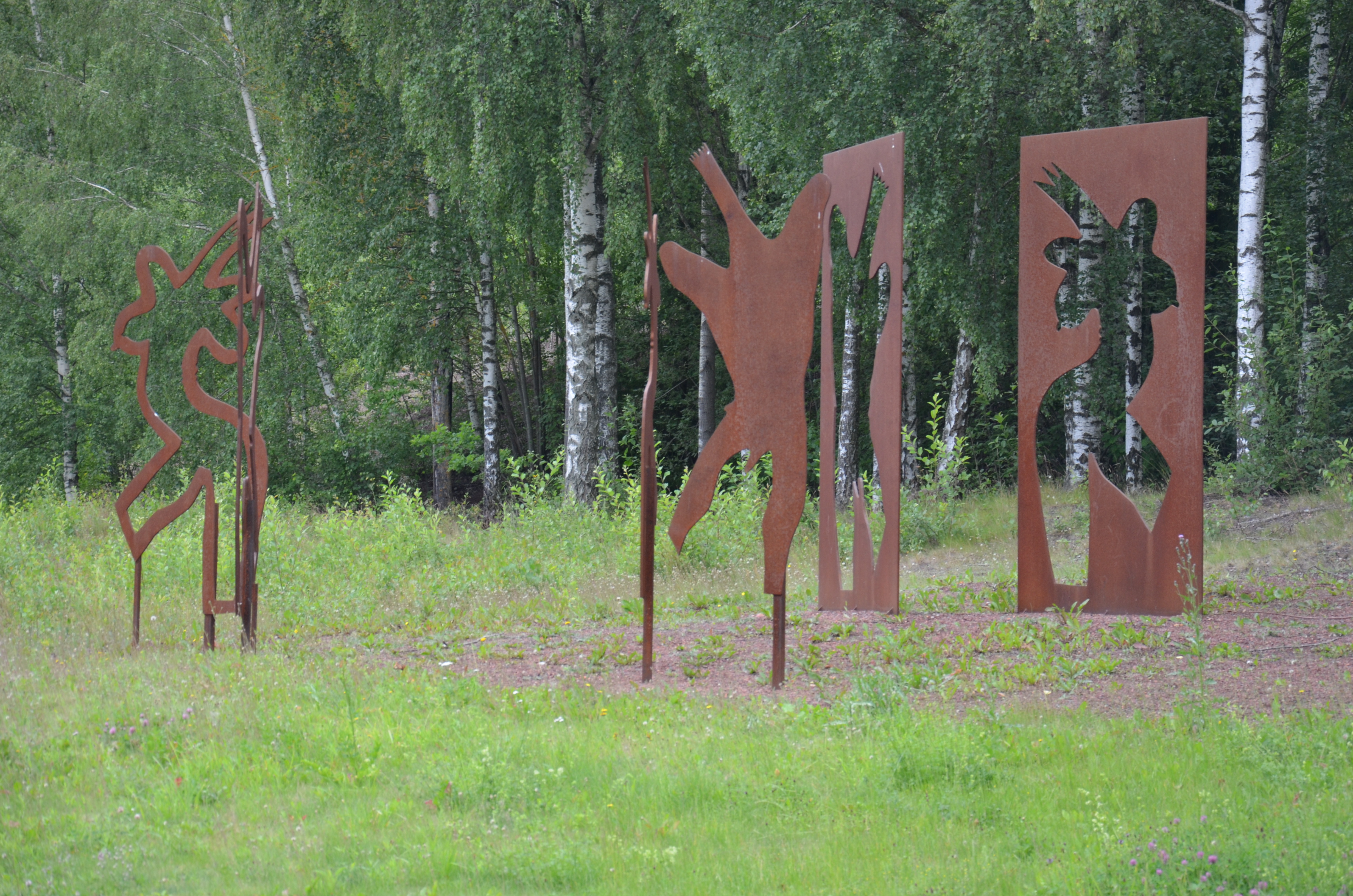 Dansen av Karin Ward, 2001. cortenstål, Konst på Hög, Kumla, Sweden